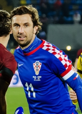 Darijo Srna